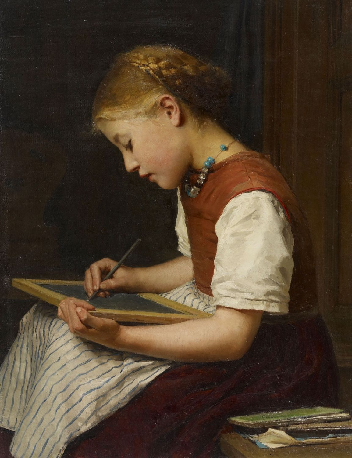 Sold for a then record price in 2011.